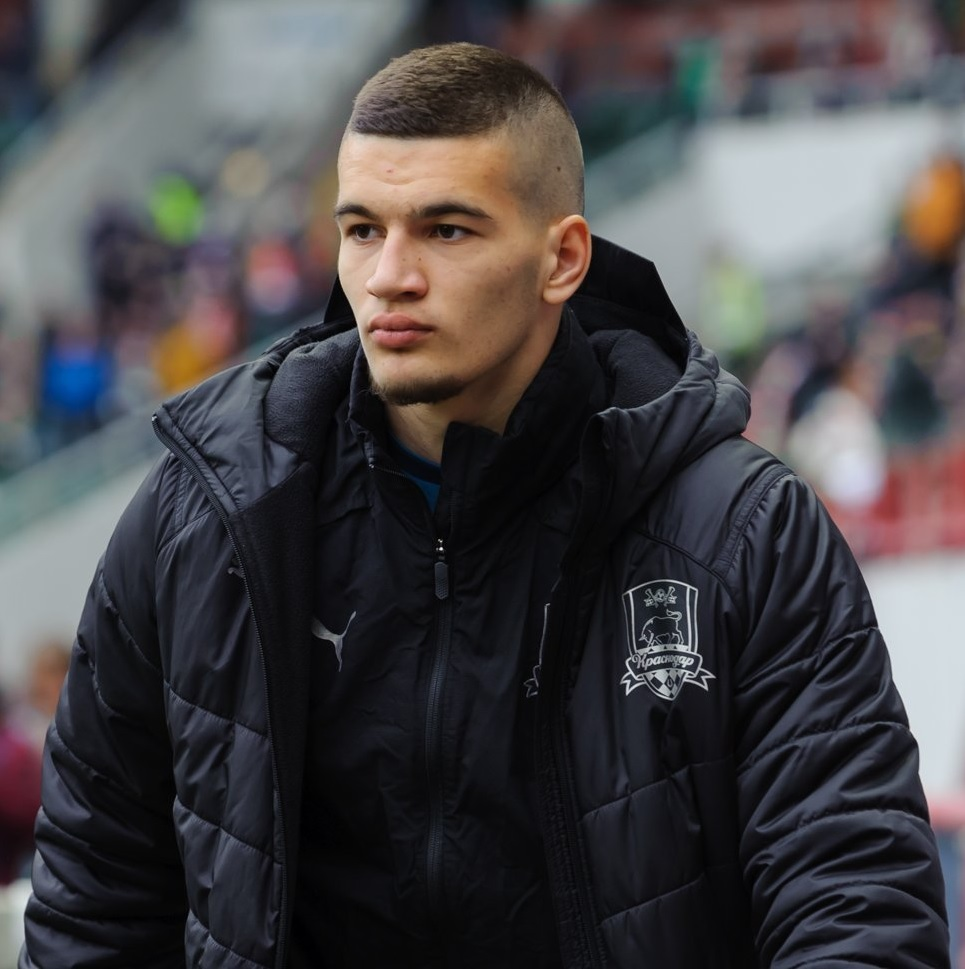 Aleksandr Chernikov with FC Krasnodar before a game against FC Lokomotiv Moscow.